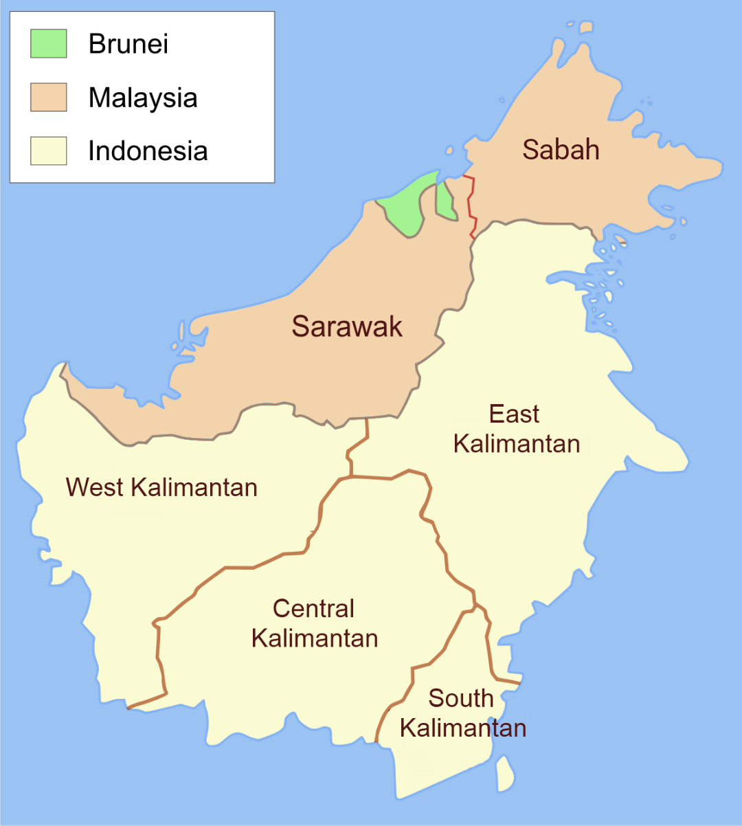 Administrative map of Borneo in English label.